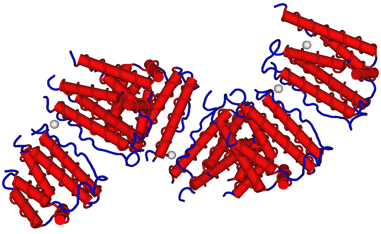 1RH2 Recombinant Human Interferon Alpha 2b